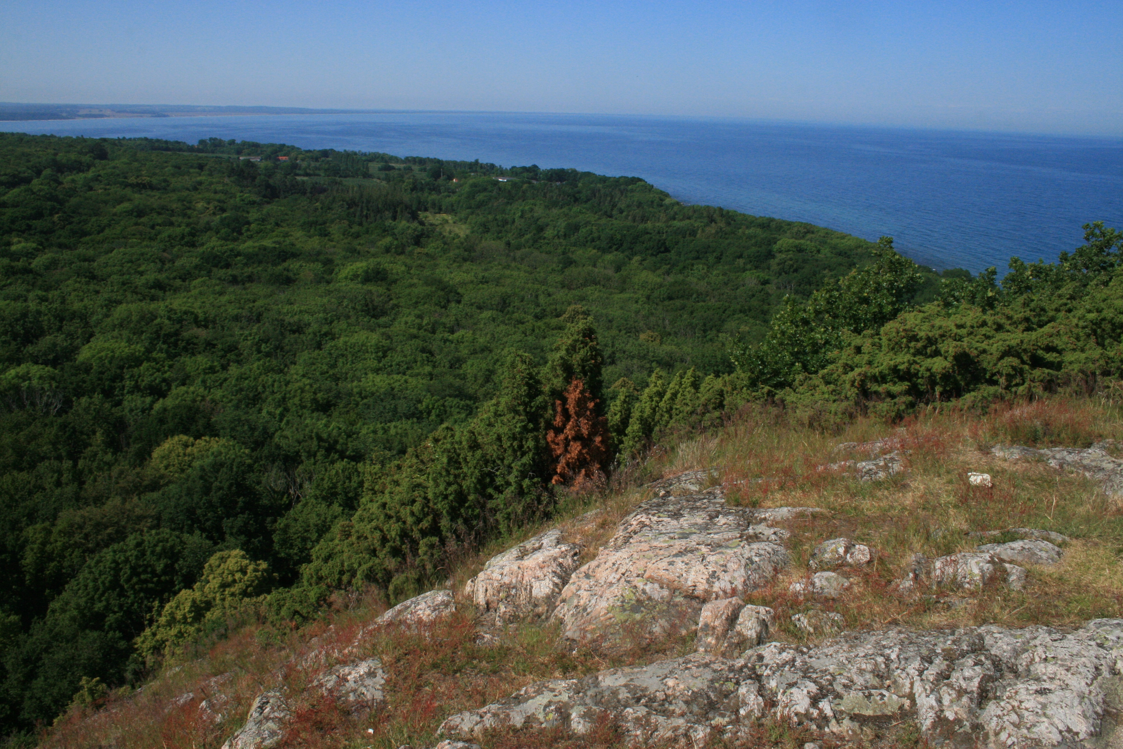 View toward the north from Norra Huvud, Stenshuvud national park